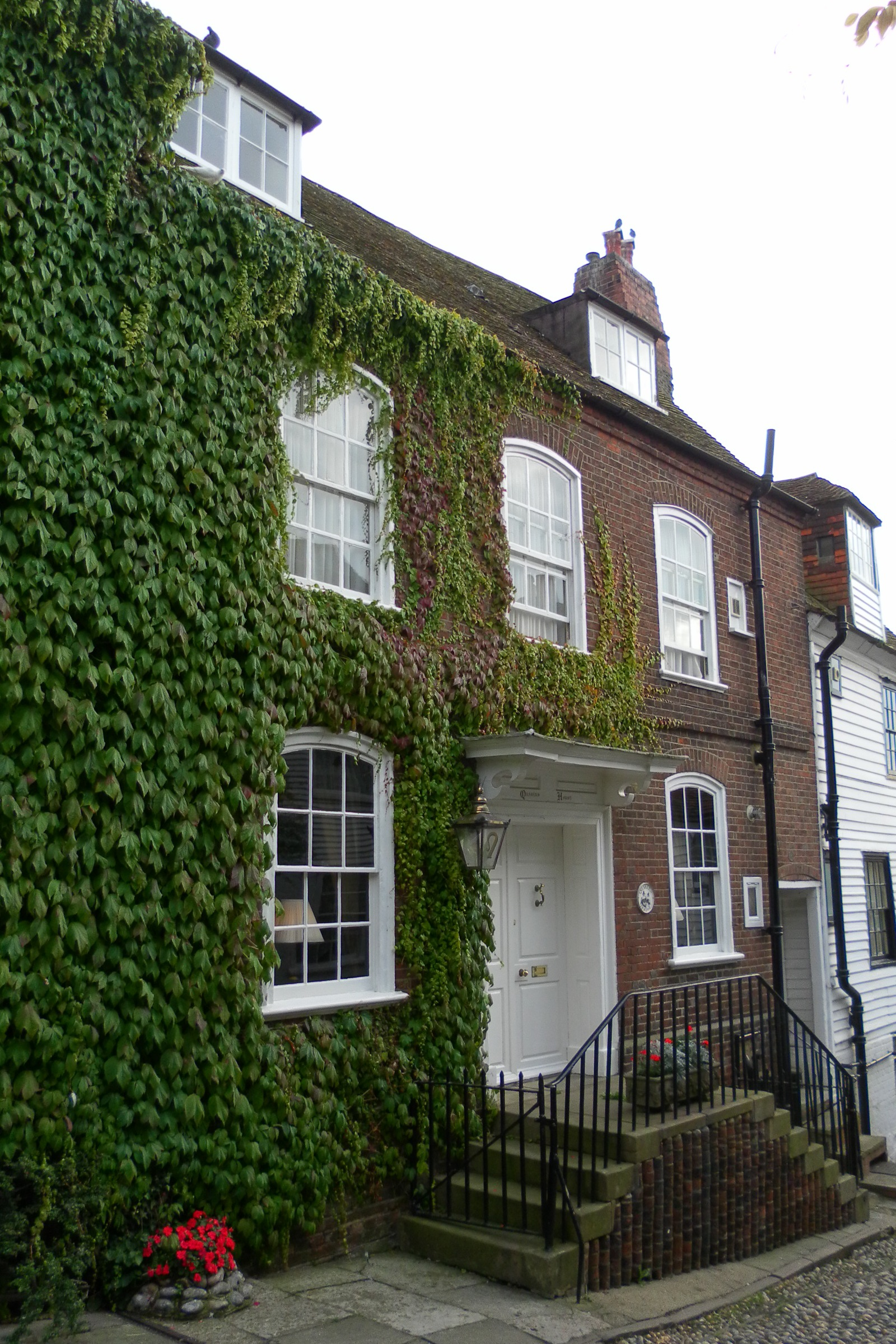 Former Rye Particular Baptist Chapel, Mermaid Street, Rye, District of Rother, England. Listed at Grade II by English Heritage (NHLE Code 1251942)